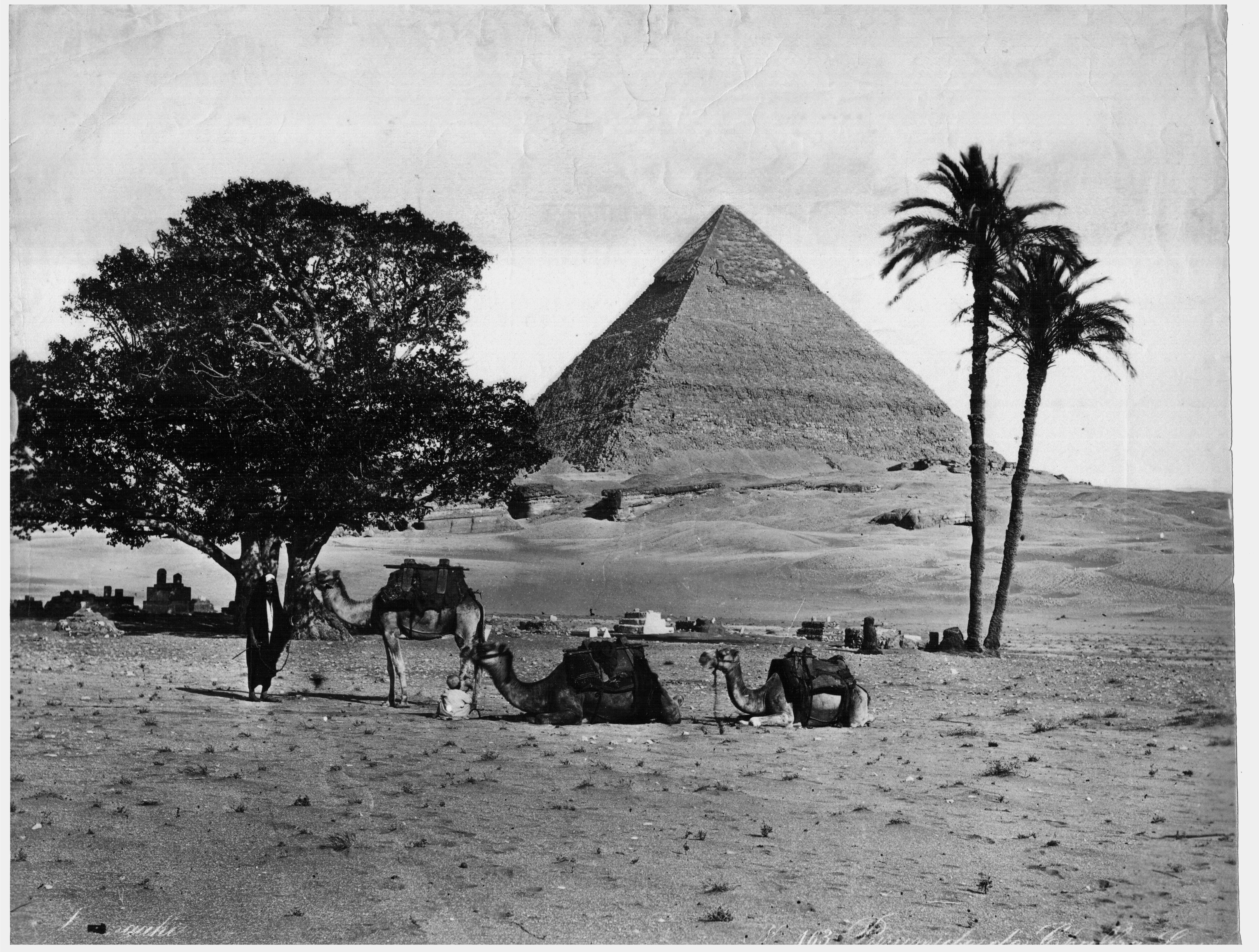 Photo on paper. Size 27,8 cm x 22 cm. Egypt. Unknown Hungarian photographer.No 269. Back side: Lapló, "Középső Piramis", ex - libris. The photo was published under Creative Commons in the METAPOLISZ DVD line. (From METAPOLISZ ISBN: 963-229-987-6 to METAPOLISZ 260 DVD ISBN 978-615-5011-14-6 under ISBN number, from there published without ISBN number).